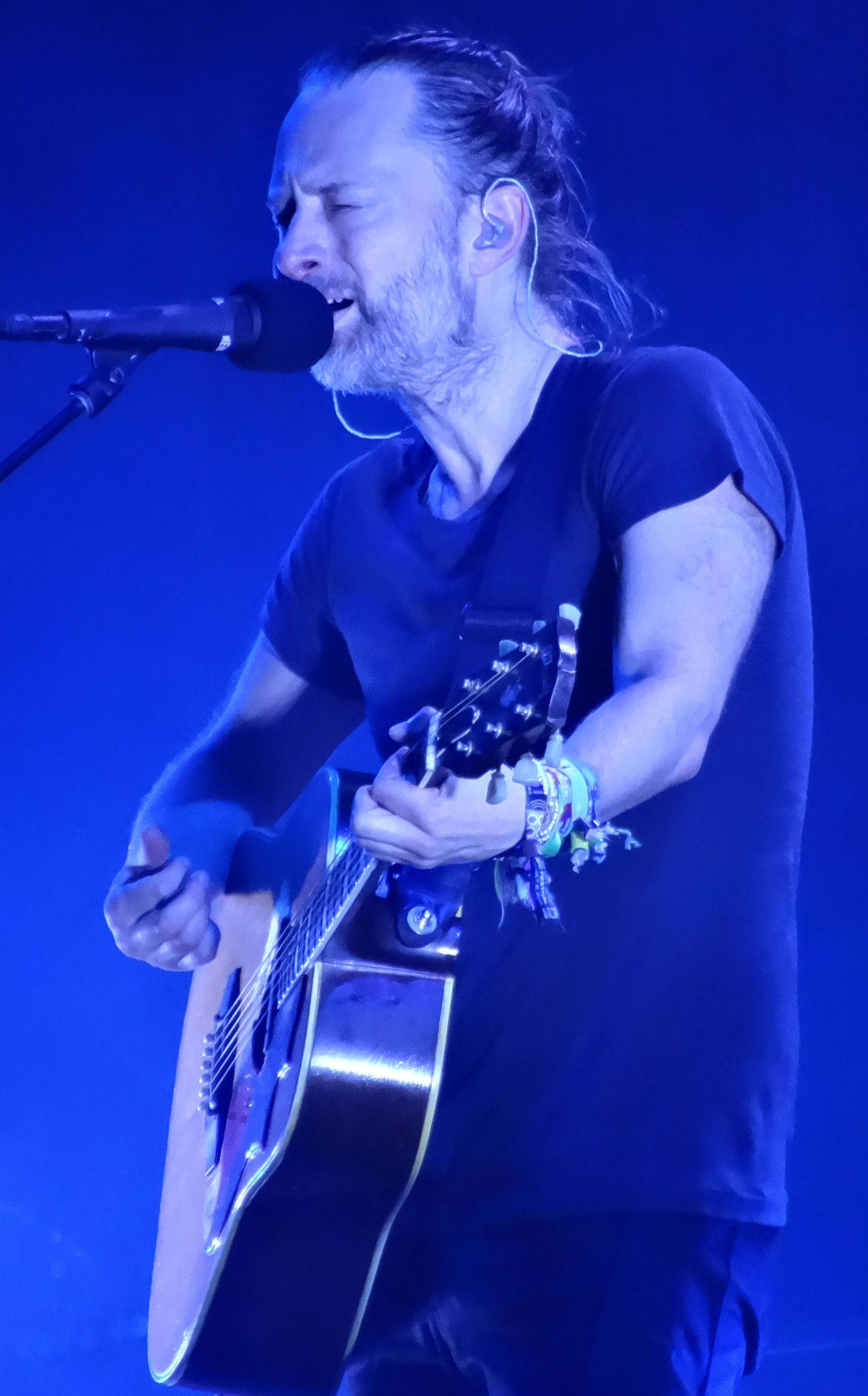 Thom Yorke performing in Austin Texas in 2016